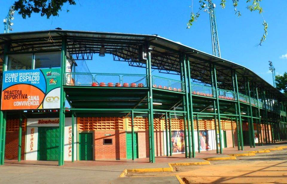 Basseball park